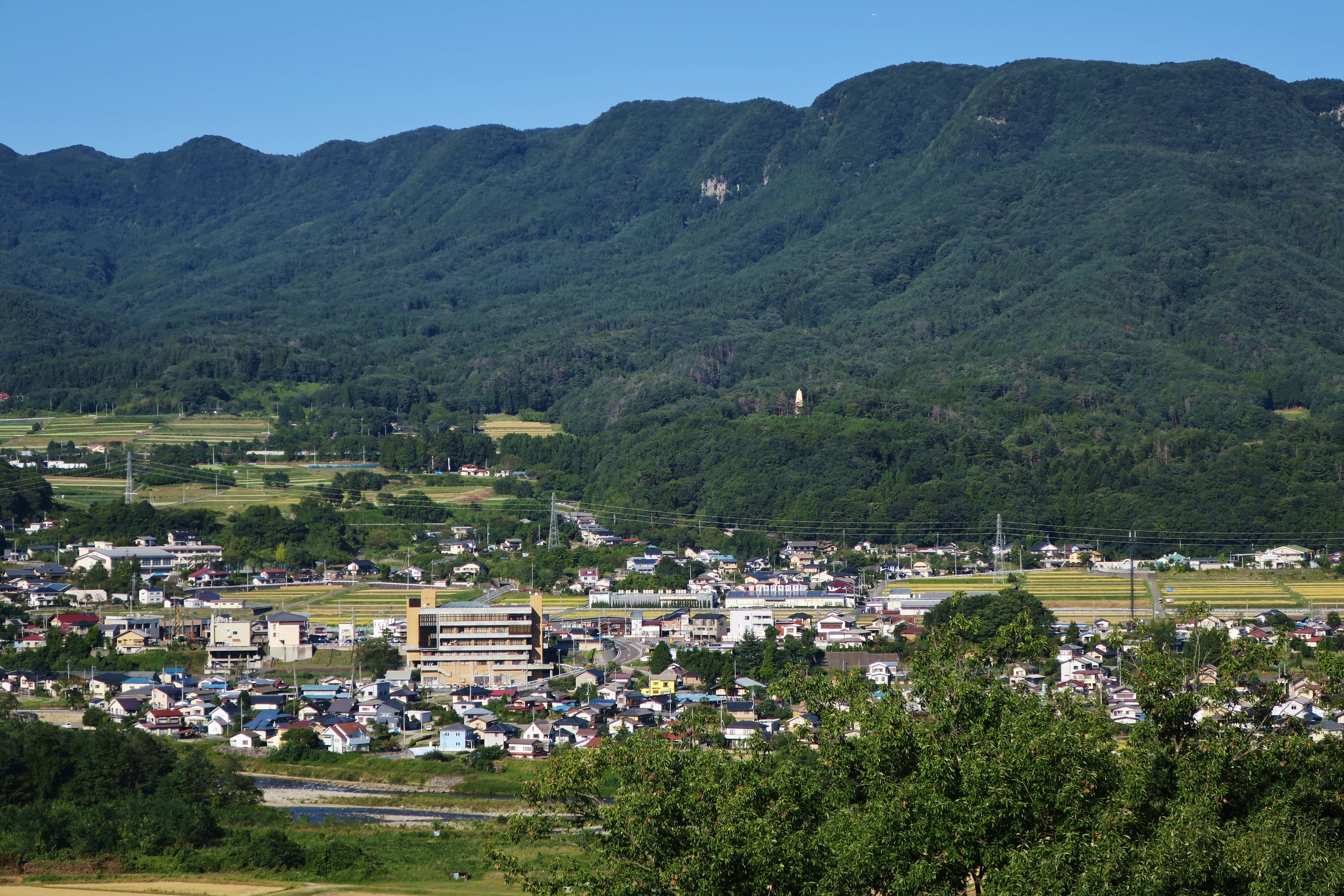 Gokan, Minakami, Gunma.